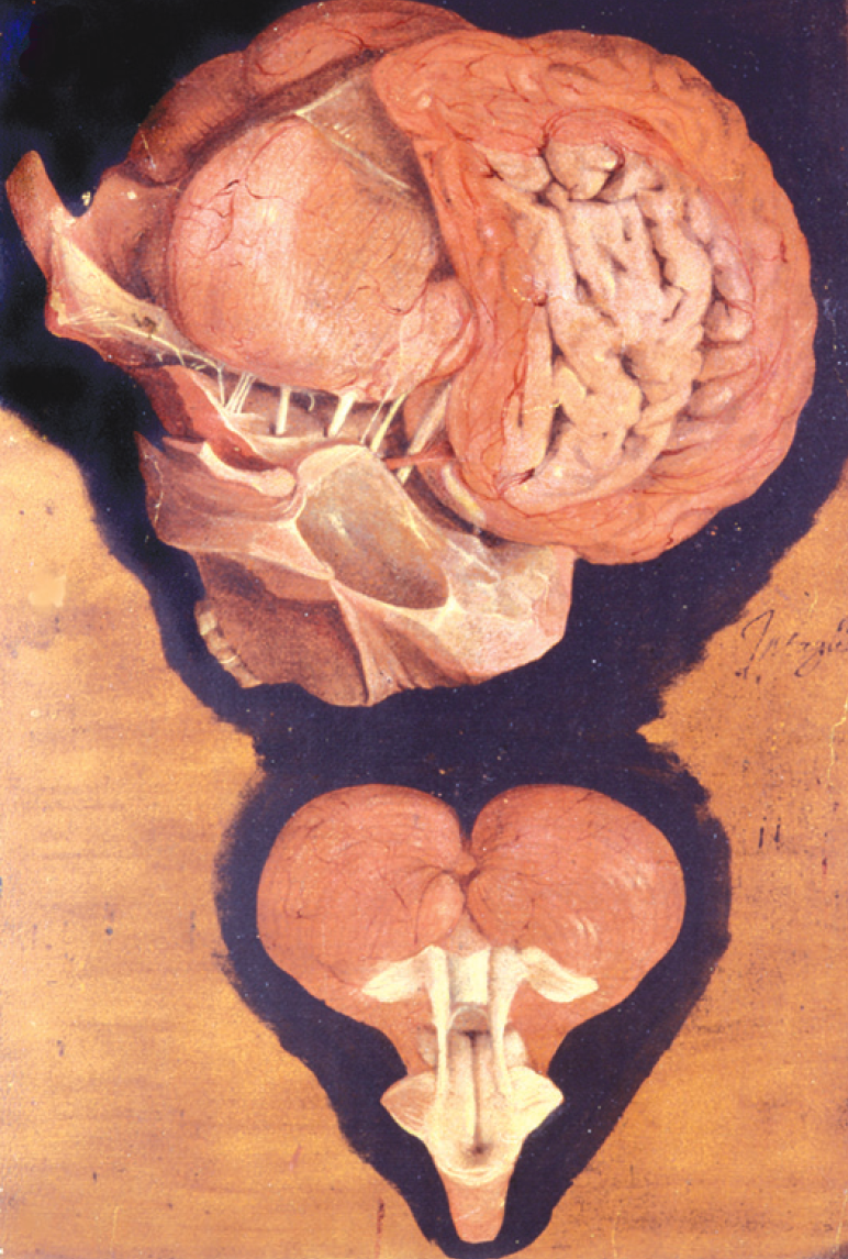 Tabulae Pictae 112.10 of Fabrici d’Acquapendente showing side view of the brain raised from the base of the cranium; below a posterior view of the brainstem and cerebellum. First accurate depiction of the sylvian fissure.